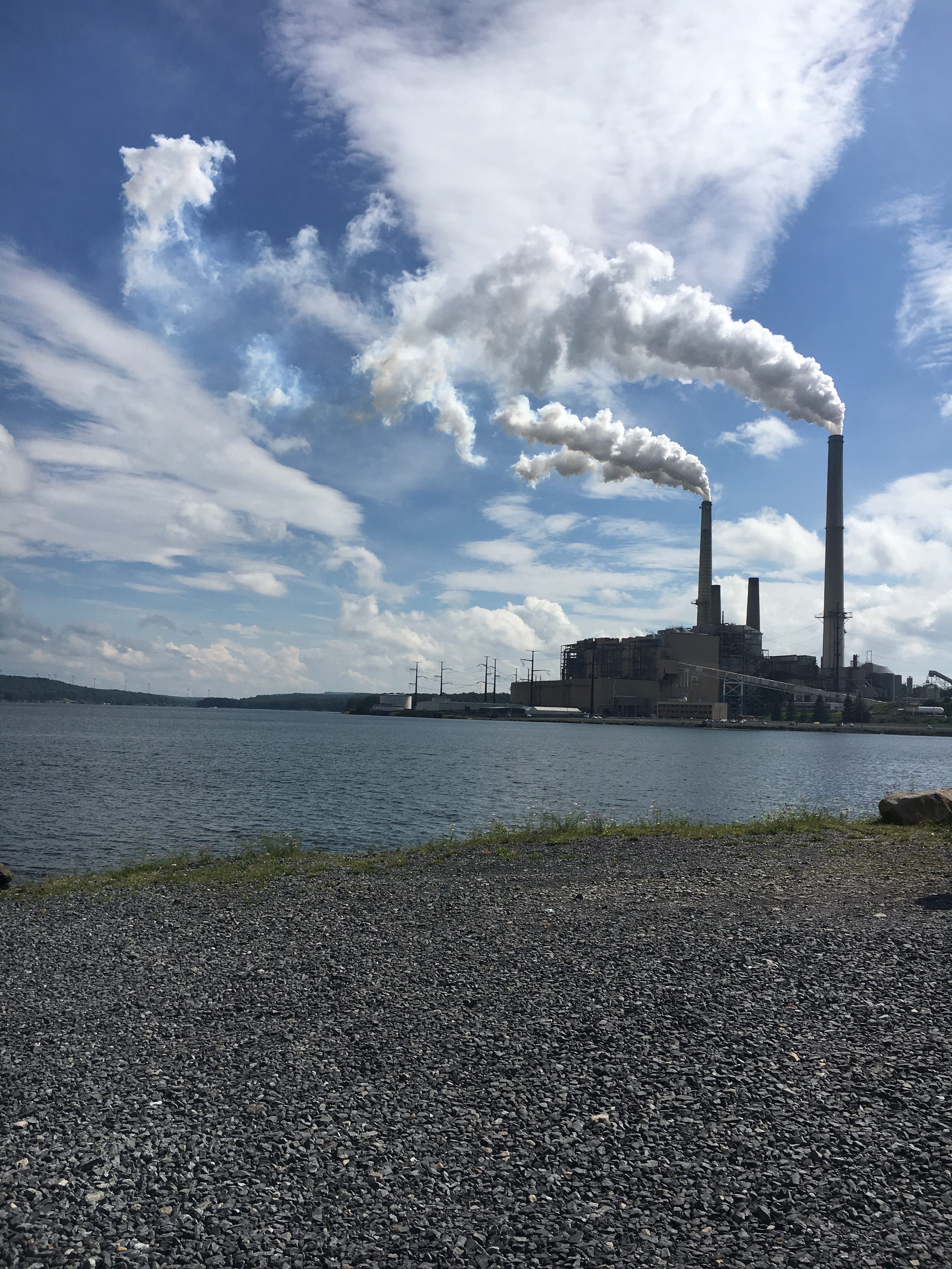 This picture is a great view of Mount Storm Lake and the power station that sits beside it.